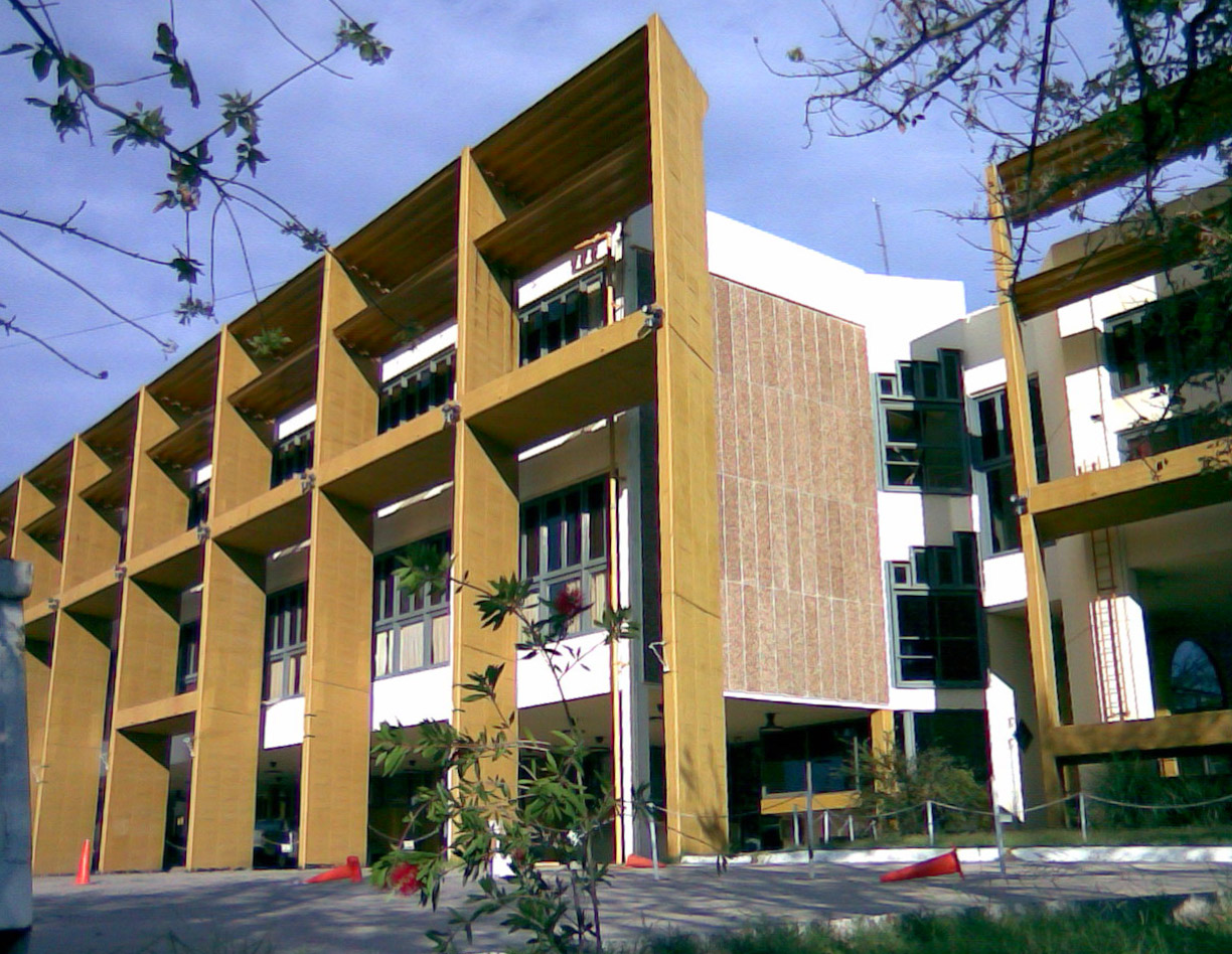 Edificio de la Cámara de diputados de La Pampa, parasoles y escaleras.